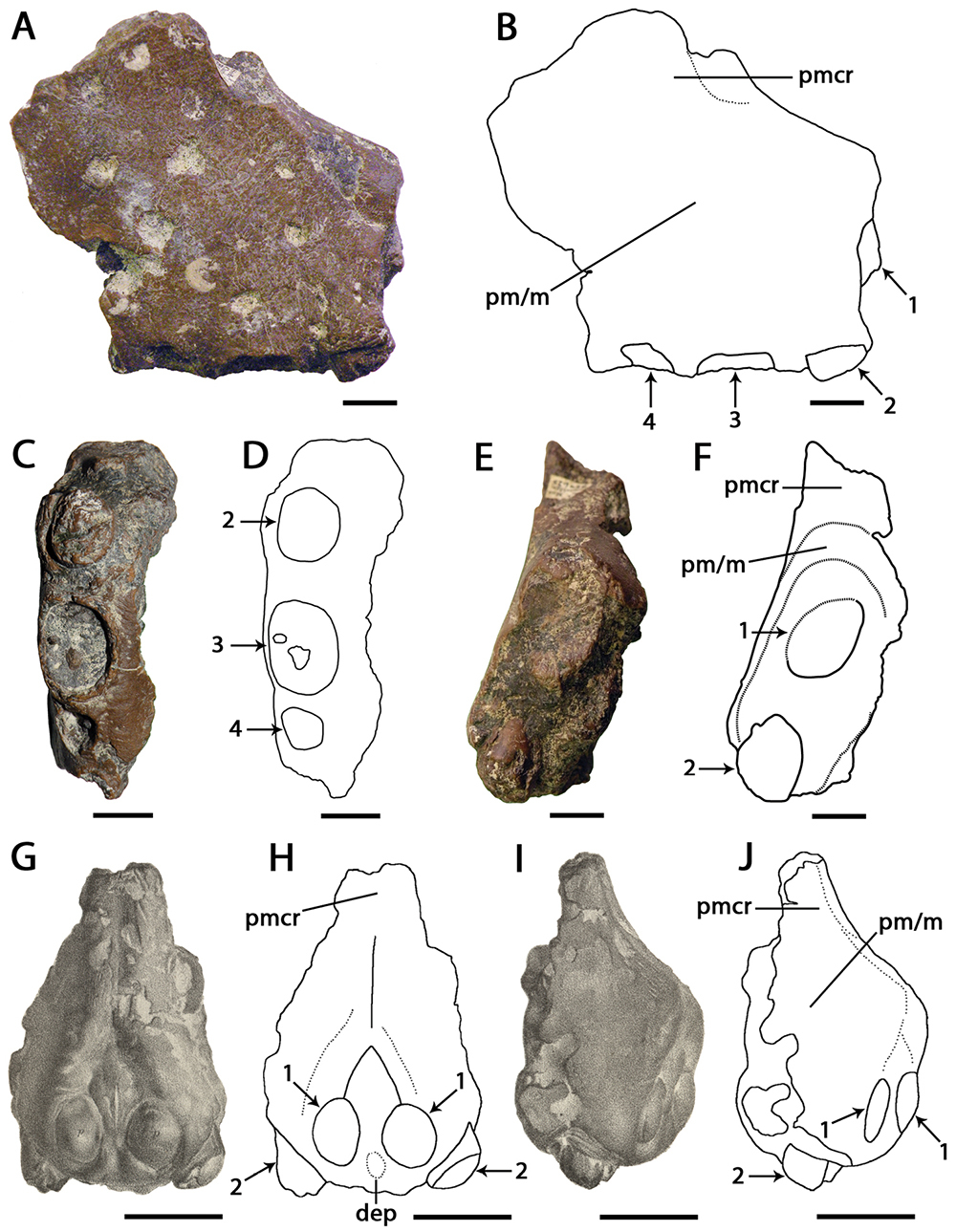 ‘Ornithocheirus’ capito. A–F holotype CAMSM B 54625 (Albian, Cambridge Greensand), anterior part of the rostrum A right lateral view B respective line drawing C ventral view D respective line drawing E anterior view F respective line drawing. G–J referred specimen, whereabout unknown, holotype of Ornithocheirus reedi (Albian, Cambridge Greensand), anterior part of the rostrum G anterior view H respective line drawing I right lateral view J respective line drawing. Abbreviations: dep – depression, m – maxillae, pm – premaxillae, pmcr – premaxillary crest. Arrows and numbers indicate alveoli or teeth and their respective position. Scale bar = 10 mm. G and I from Seeley 1881.